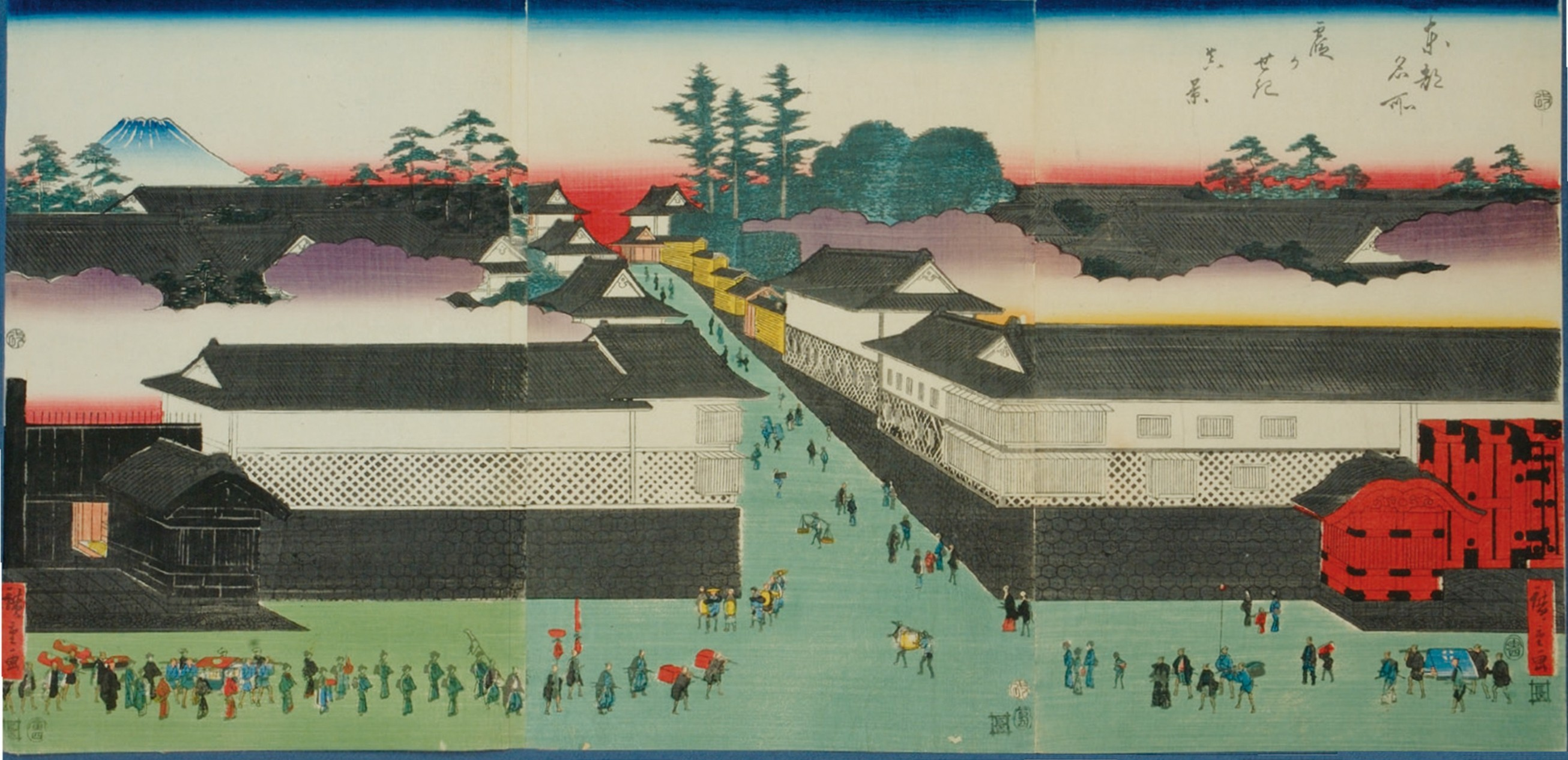 view towards Kasumigaseki at Edo